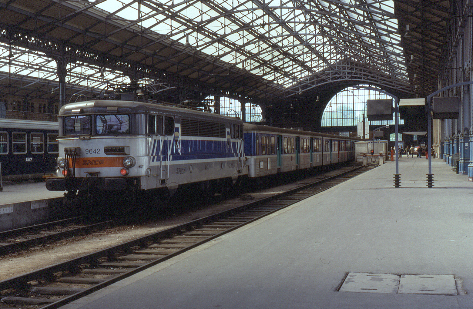 2 May 1992. At the time of this photo being taken, BB 9641 was one of two locos almost permanently allocated to the push-pull operated shuttle service between Tours main station (seen here) and St-Pierre-des-Corps. The former is a dead end terminus with St-Pierre-des-Corps being on the mainline some 3 kms from the city centre.